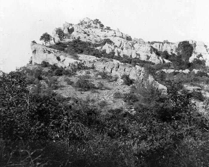 Hosselkus limestone at top of Brock Mountain. Shasta County, California. 1902. - ID. Stanton, T. W. 098 - stw00098 - U.S. Geological Survey - Public domain image